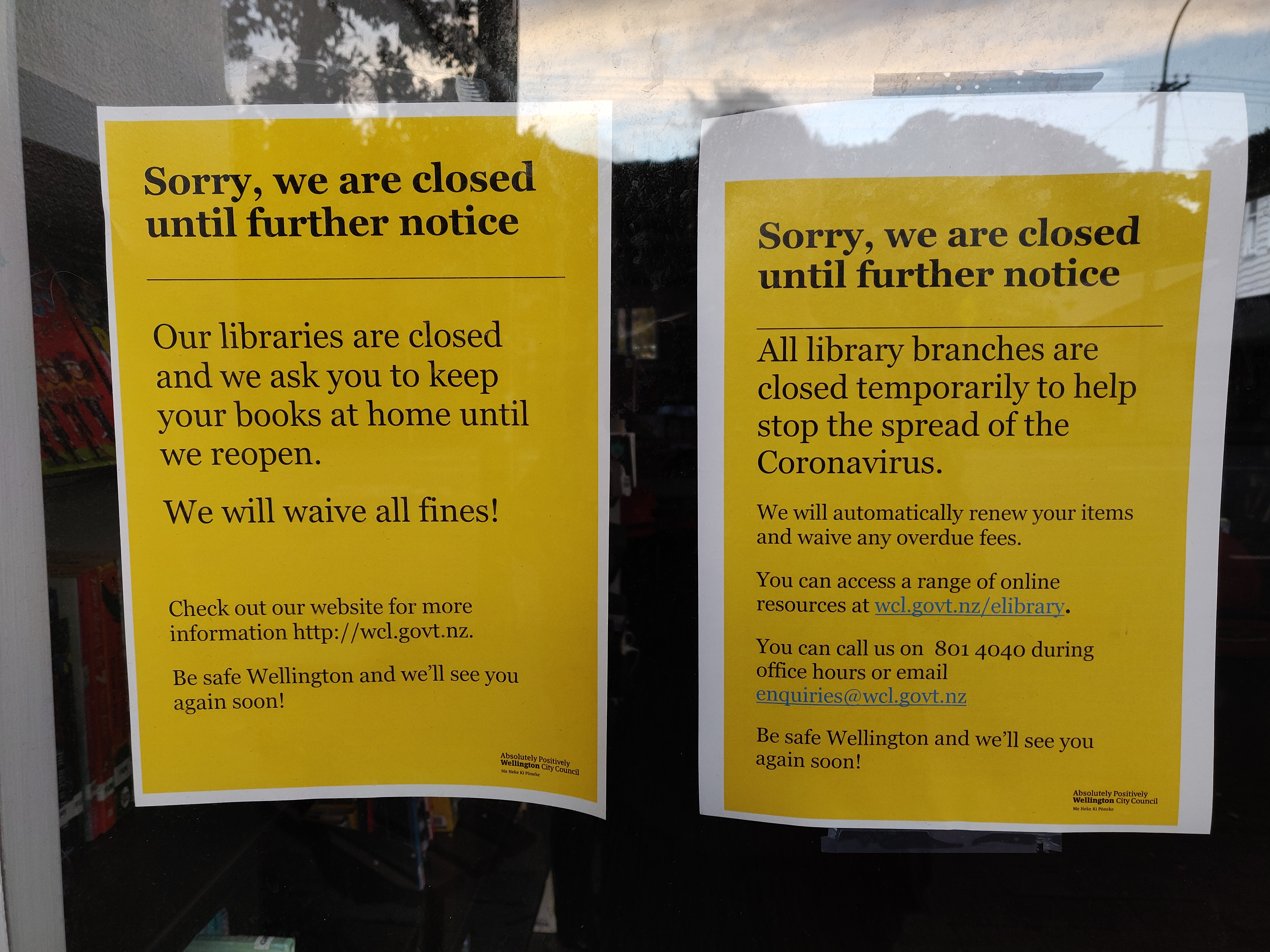 A sign in a window of the closed library in Island Bay, Wellington due to COVID-19